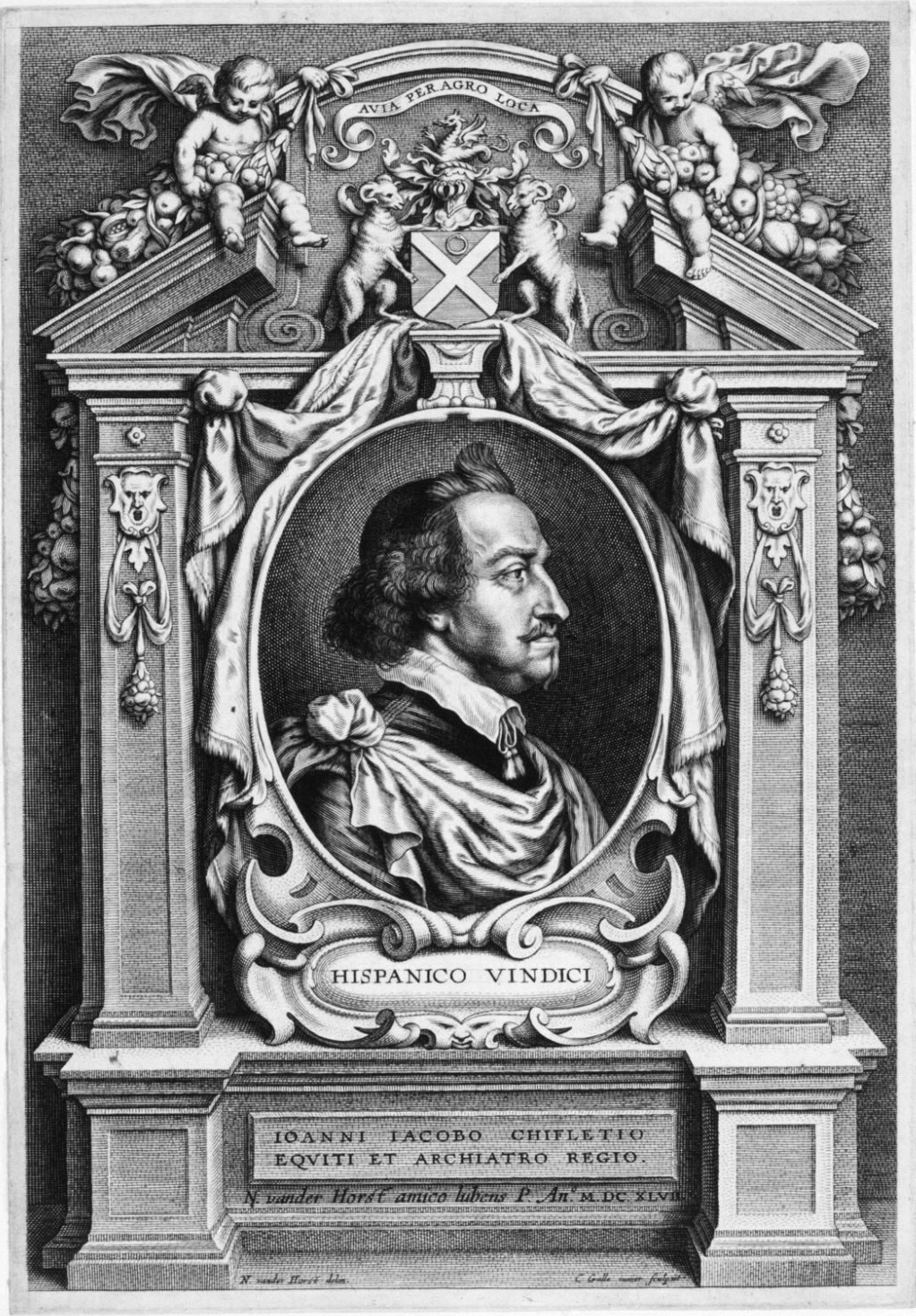 Jean-Jacques Chifflet (Chiflet), 1588–1660 engraving 23 x 16 cm